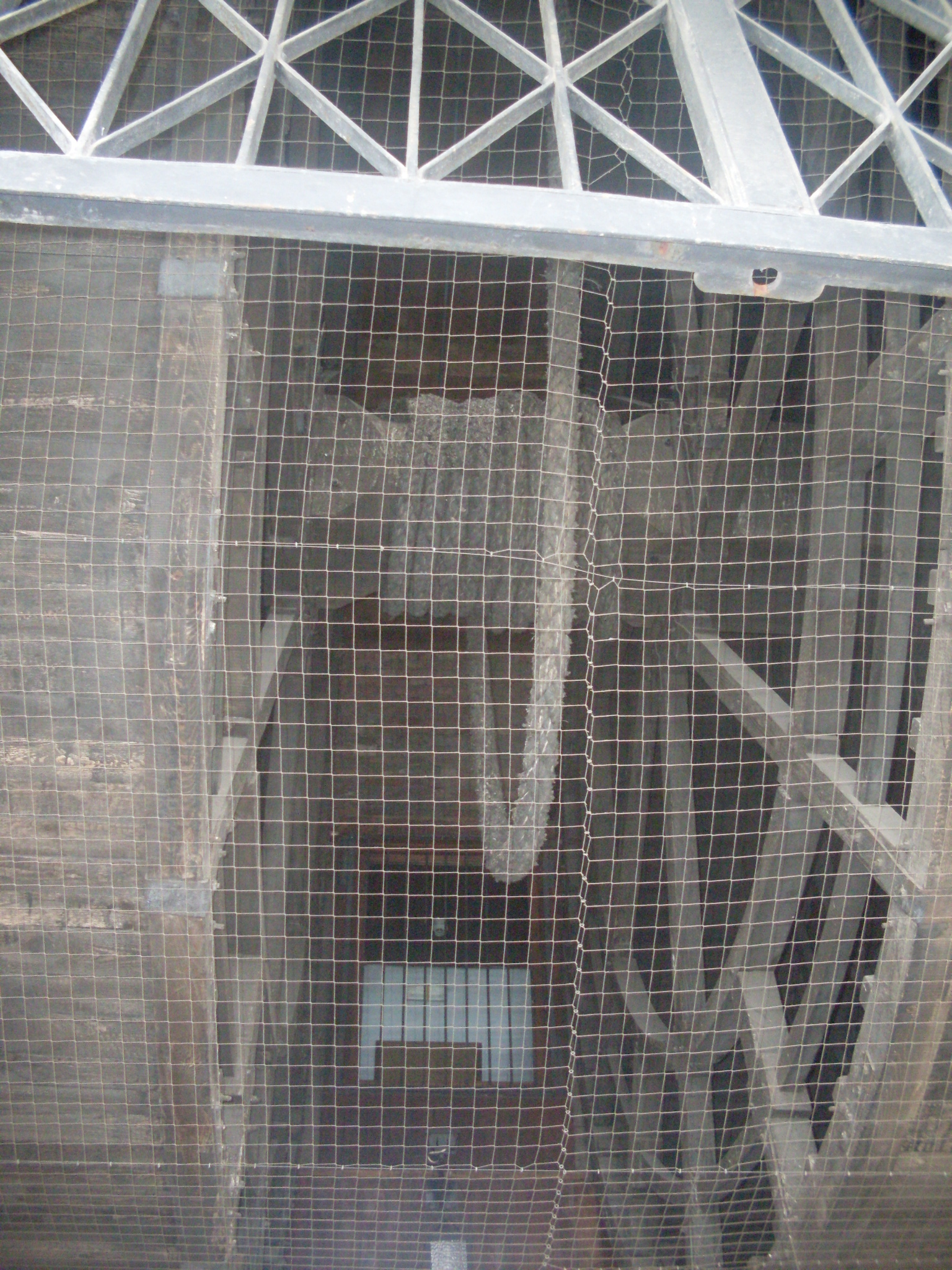 Lower cylinder of Żuraw in Gdańsk. He served to propelling of the crane.